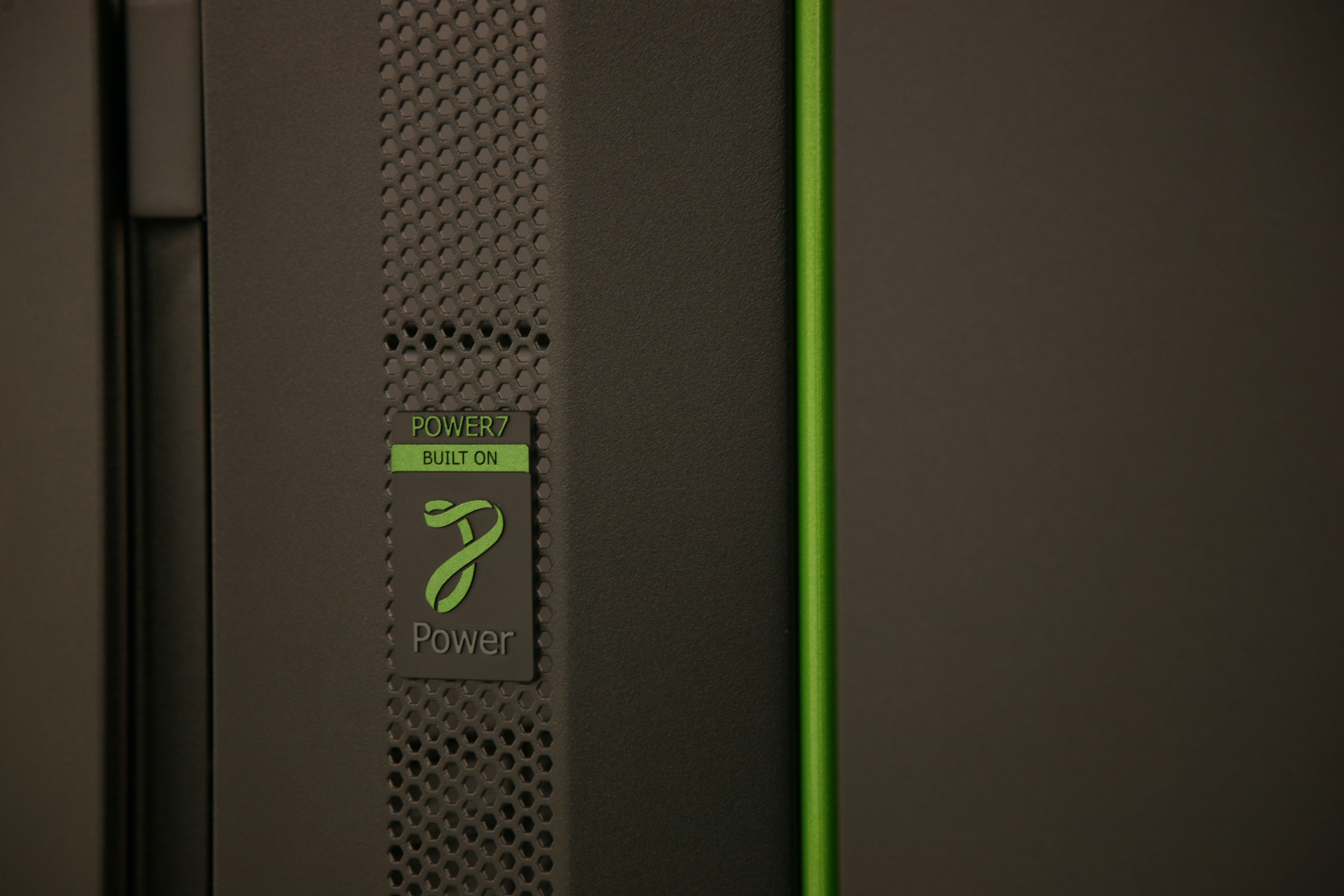 Blue Waters Power7 Rack Detail